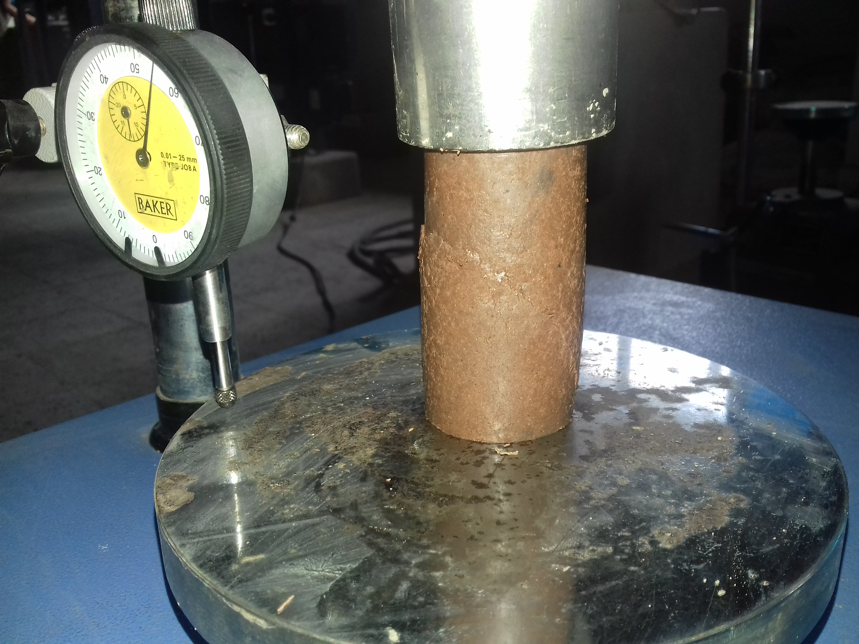 an unconfined compression test is being carried out. here the development of failure surface can be seen